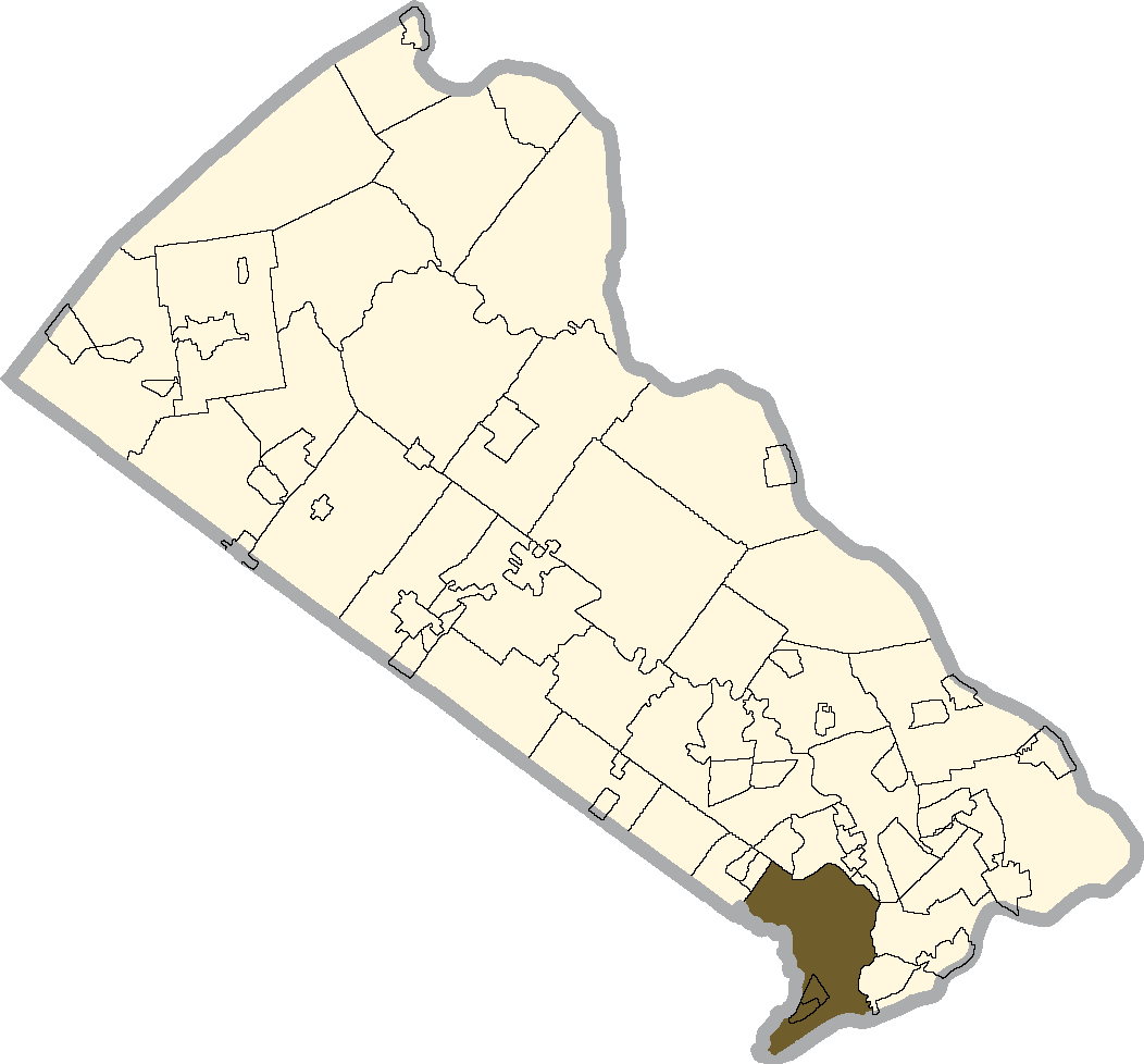 Bensalem Township shaded on the map of Bucks county, PA.